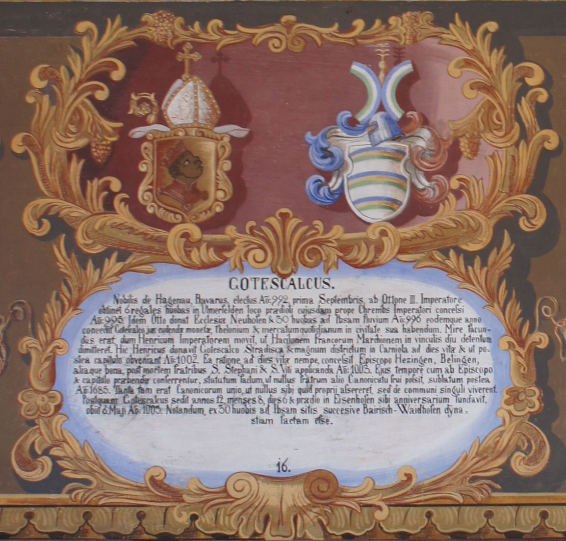 Wappentafel von Gottschalk von Hagenau, Bischof von Freising, im Fürstengang zwischen Fürstbischöflicher Residenz und Freisinger Dom. Links das geistliche, rechts das persönliche Wappen, darunter ein lateinischer Text mit kurzer Biographie.